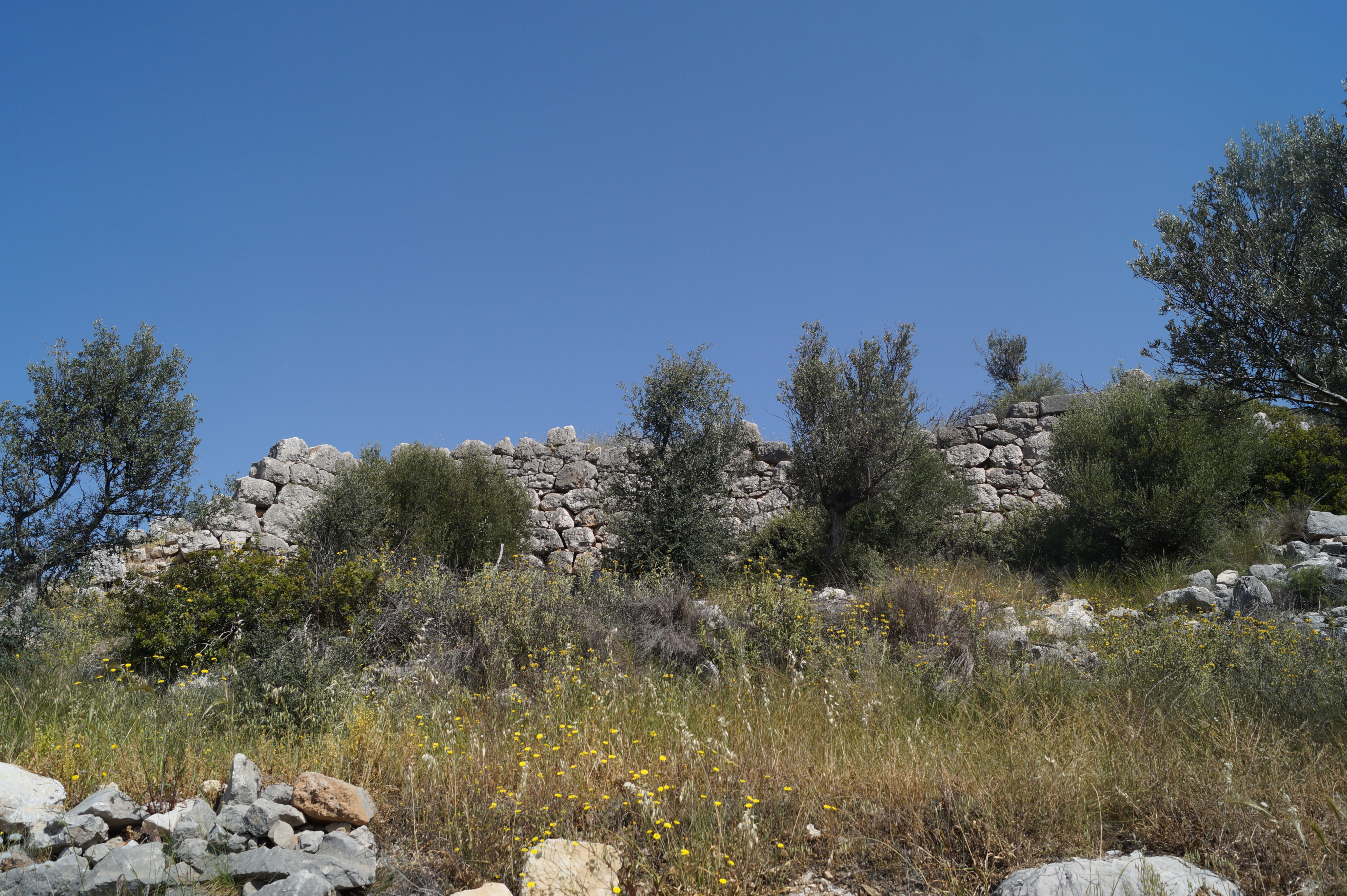 Arkadiko, Argolis, Greece: View of the south wall of the castle Kastraki.